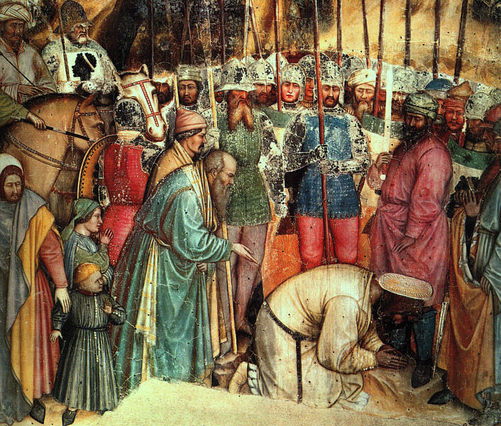 “The Beheading of Saint George”, wall painting